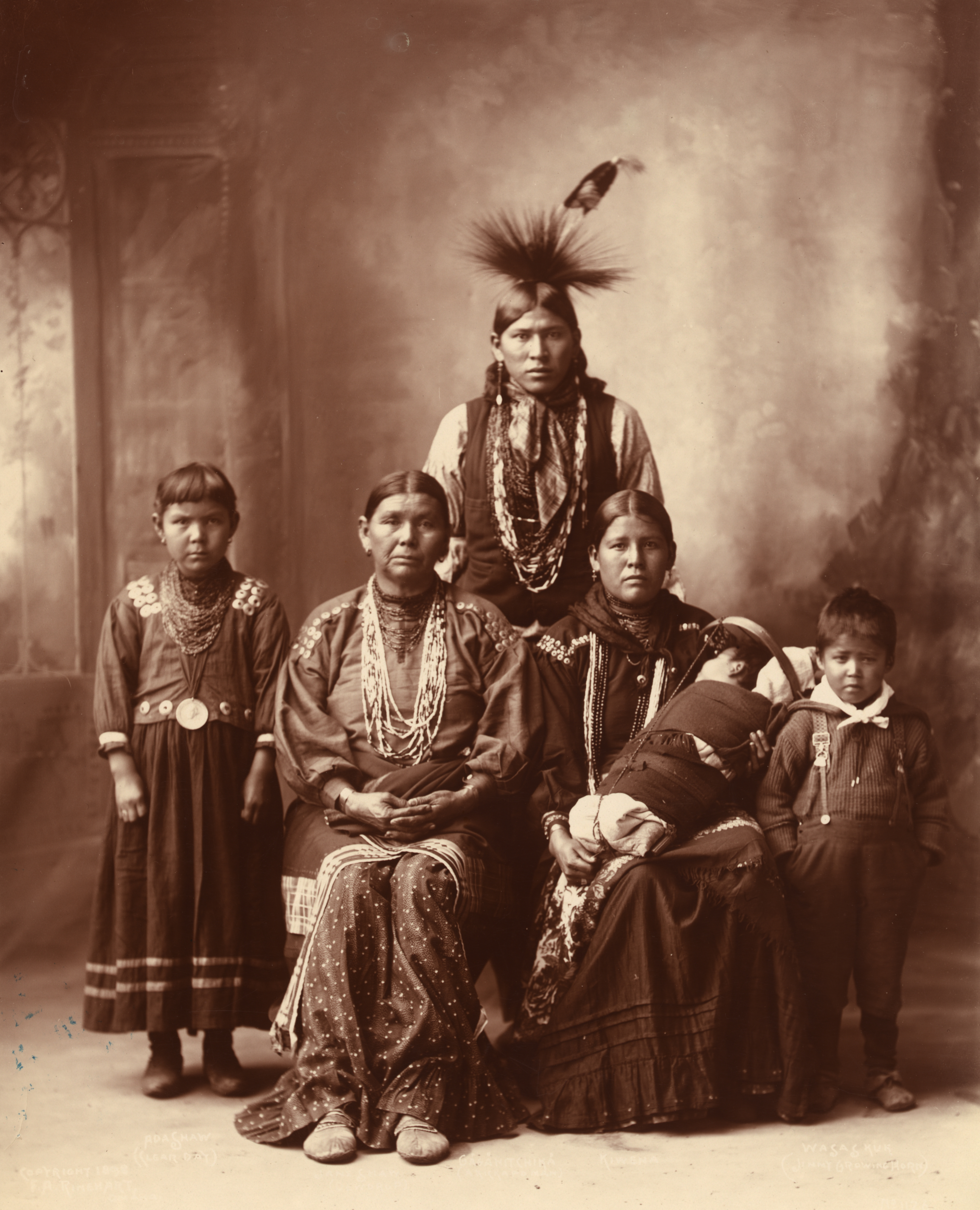 Sauk (or Sac) Indian family photographed by Frank Rinehart (1861-1928)